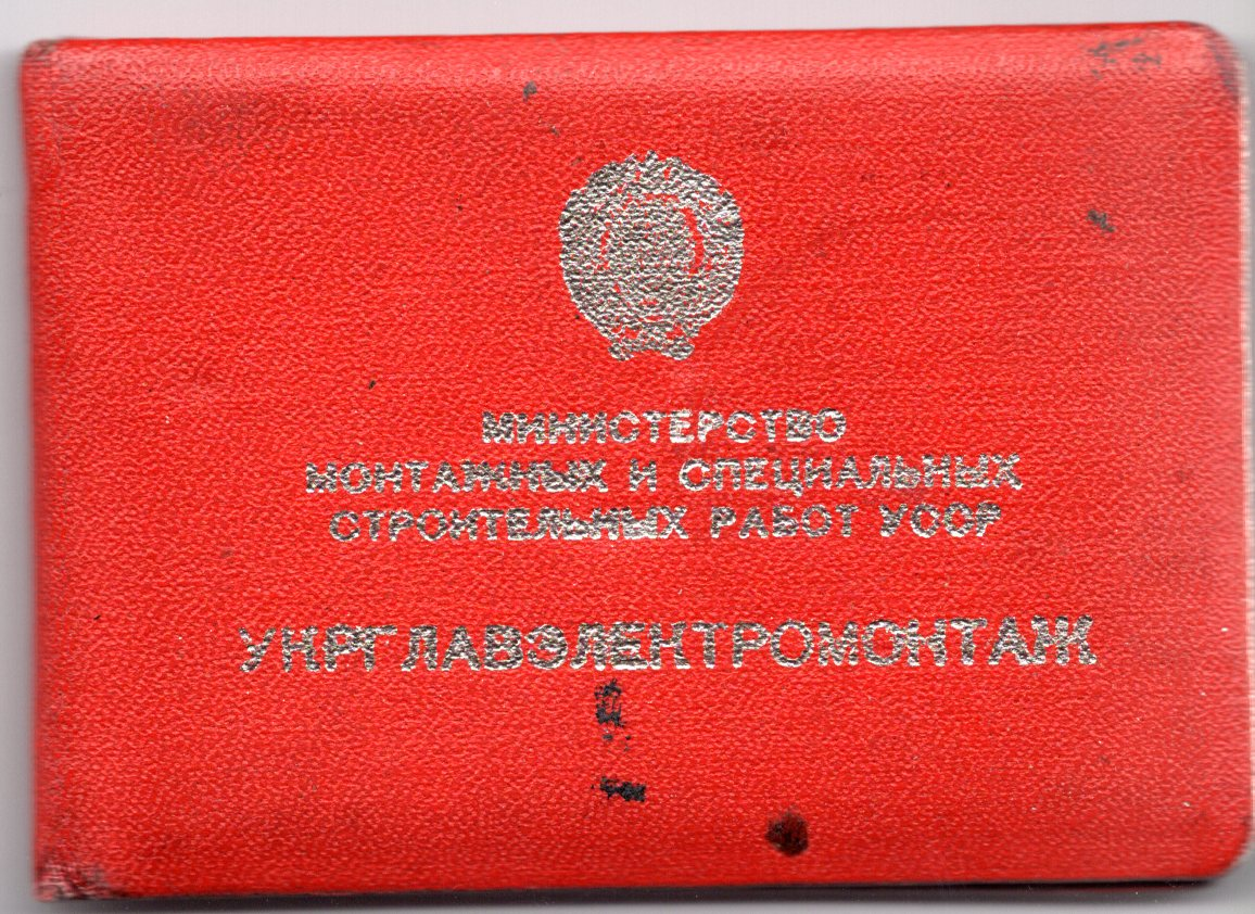 Identity cards of UGEM MMCBR URSR, 1991